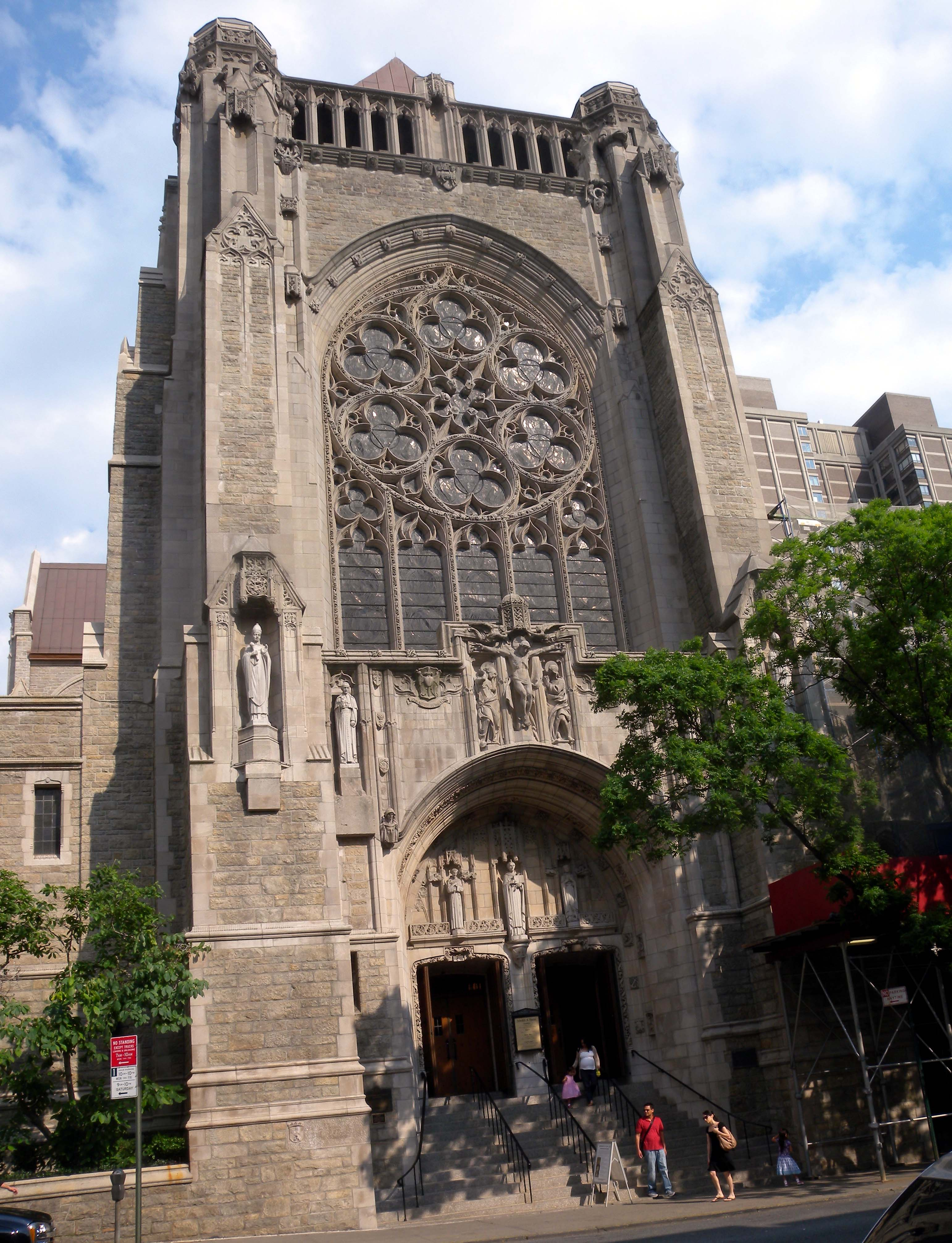 Looking southeast across Lexington Avenue and 66th Street at St Vincent Ferrer, renovations completed, on a sunny afternoon.